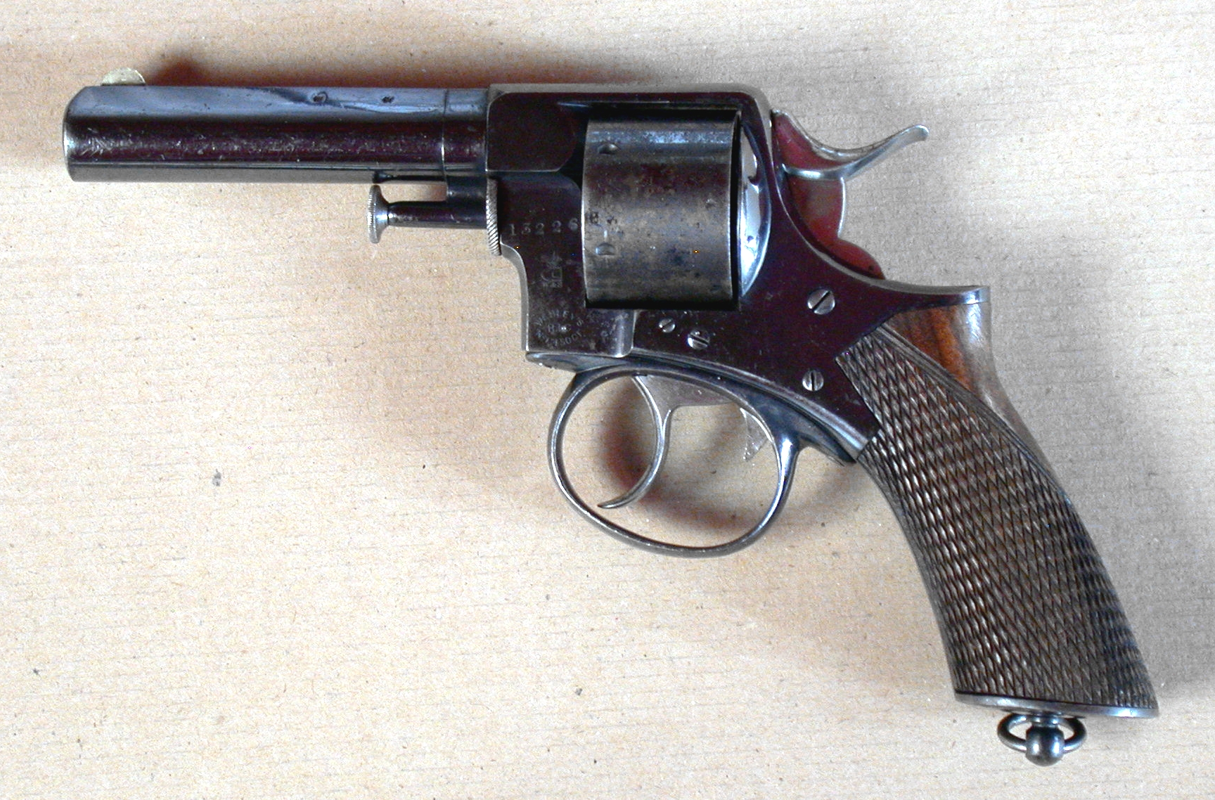 Webley RIC Nr. 1 (Royal Irish Constabulary Revolver) Caliber .450 CF